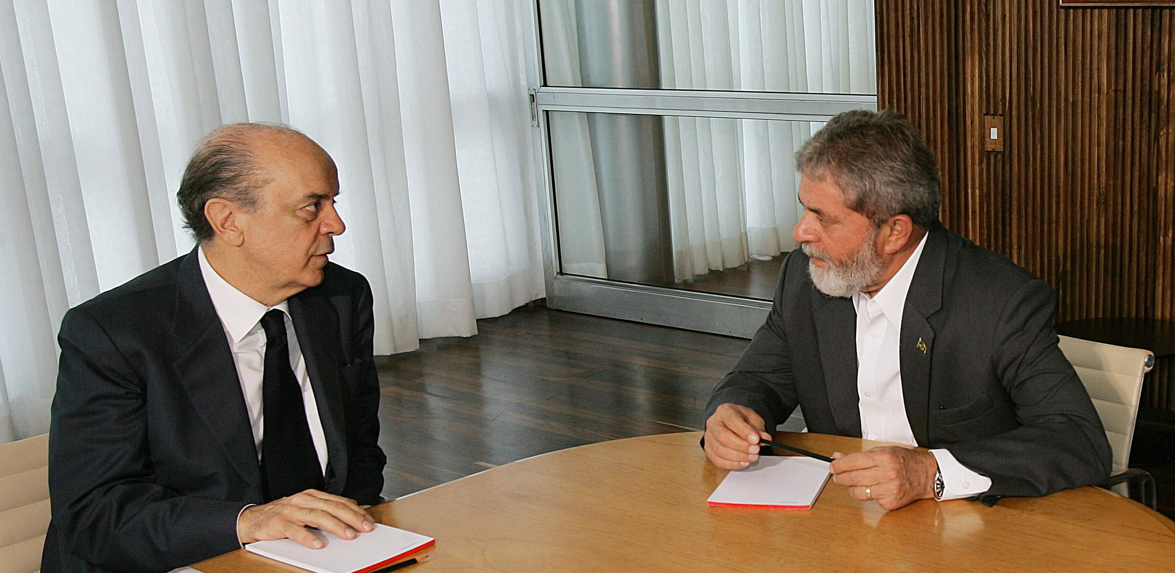 José Serra, governor of the Brazilian state of São Paulo talks with the president Luís Inácio Lula da Silva in Brasília.